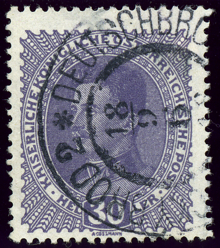 Austrian KK 30 heller stamp, last issue, bilingual cancelled NEMECKY BROD - DEUTSCHBROD in 1918, (Havlíčkův Brod) Bohemia